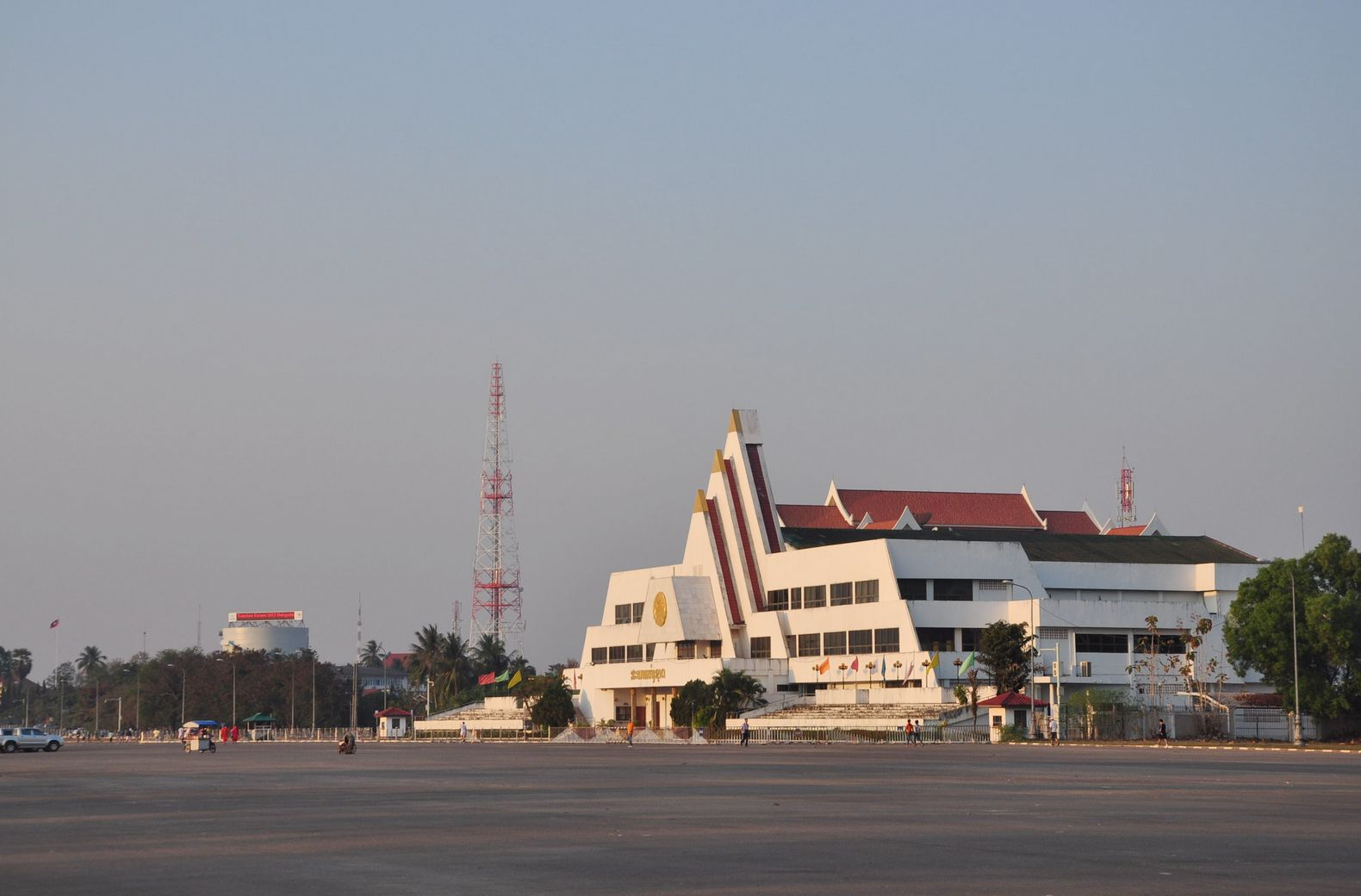 National Assembly of Laos, Building in Vientiane